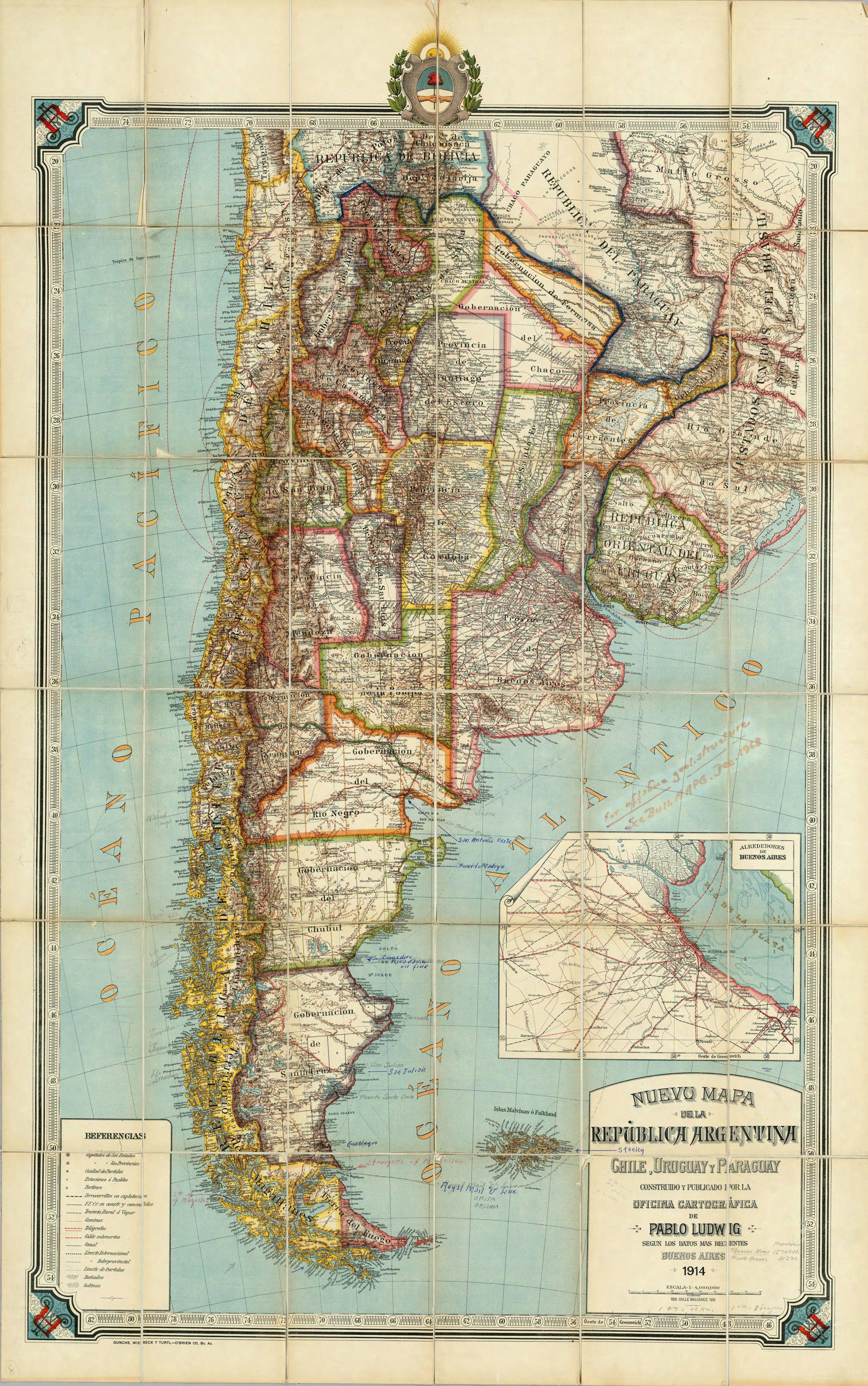 New map of the Republic of Argentina, Chile, Uruguay and Paraguay made and published by the Cartographic Office of Pablo Ludwig according to the most recent data. Buenos Aires, 1914, Gunche, Wiebeck and Turtl- O'Brien 121, Bs. As. (with Greater Buenos Aires inset)